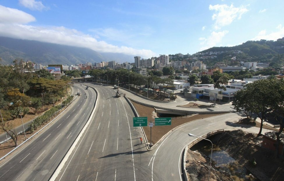 Valle Coche Highway in 2015 Caracas Venezuela 1